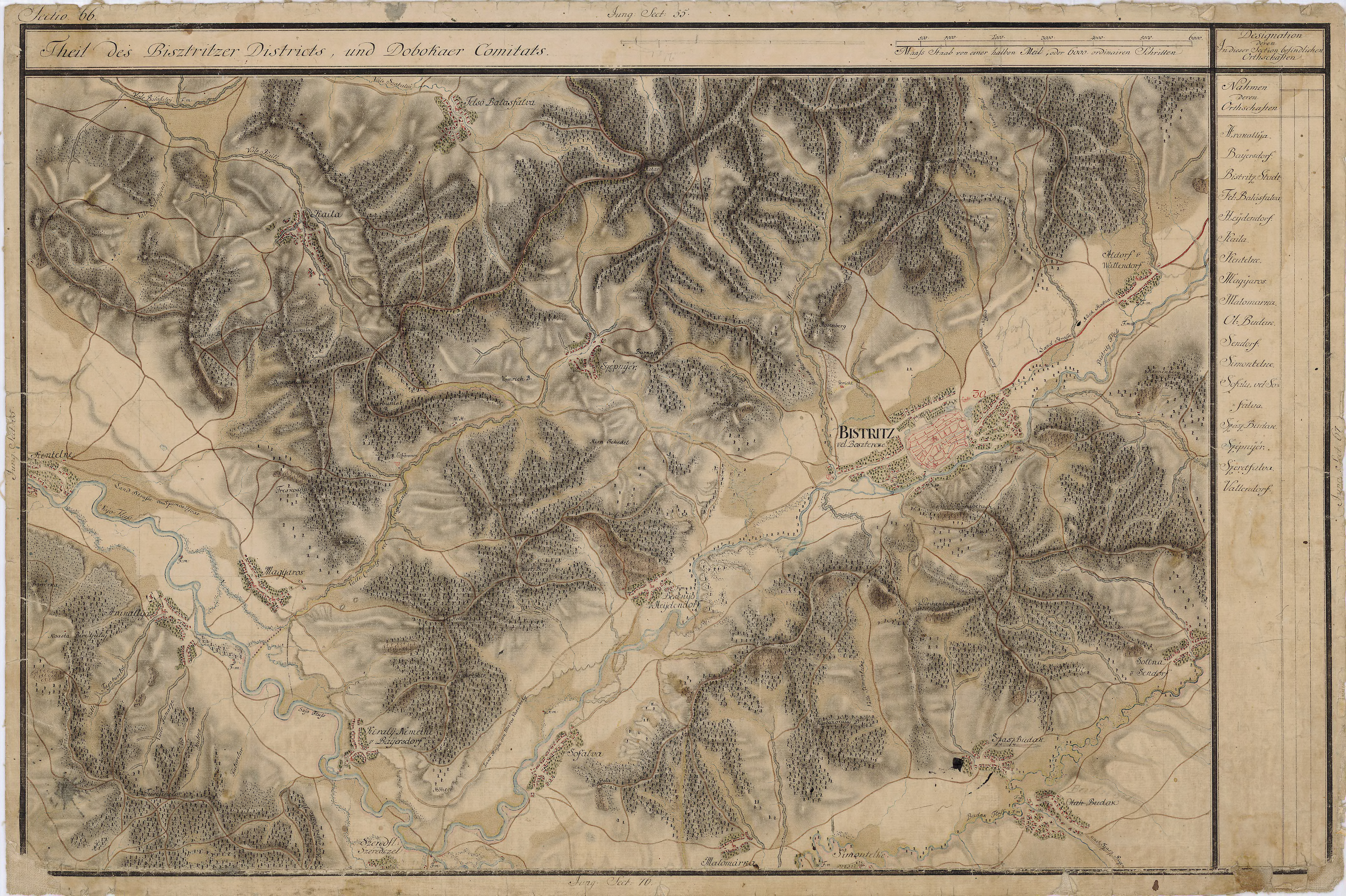 Grand Duchy of Transylvania, 1769-1773. Josephinische Landaufnahme pg.066